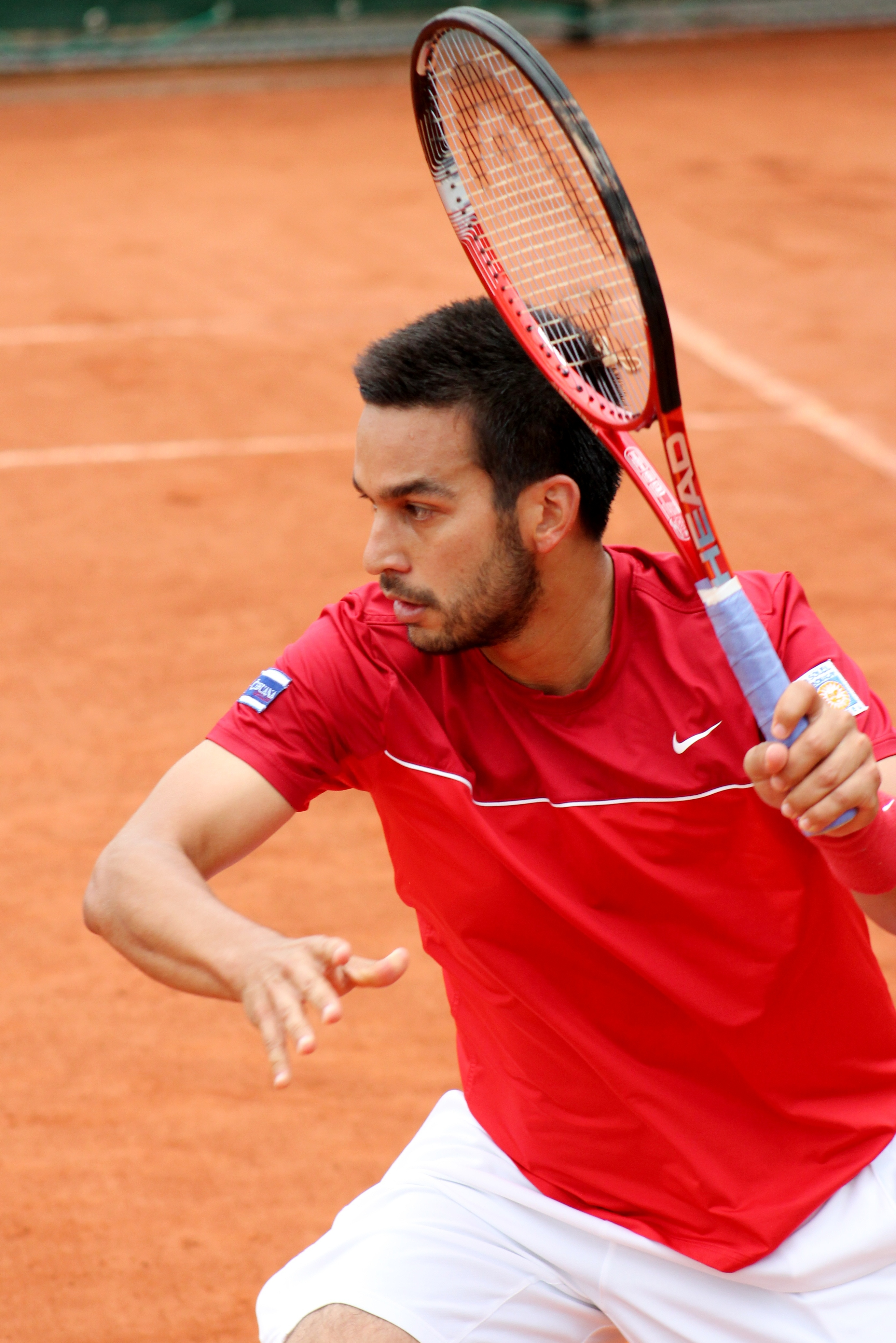 Treat Huey playing in the Men Doubles at Roland Garros 2013; partner was Dominic Inglot (GBR); opponents were Tobias Kamke & Florian Mayer (GER)